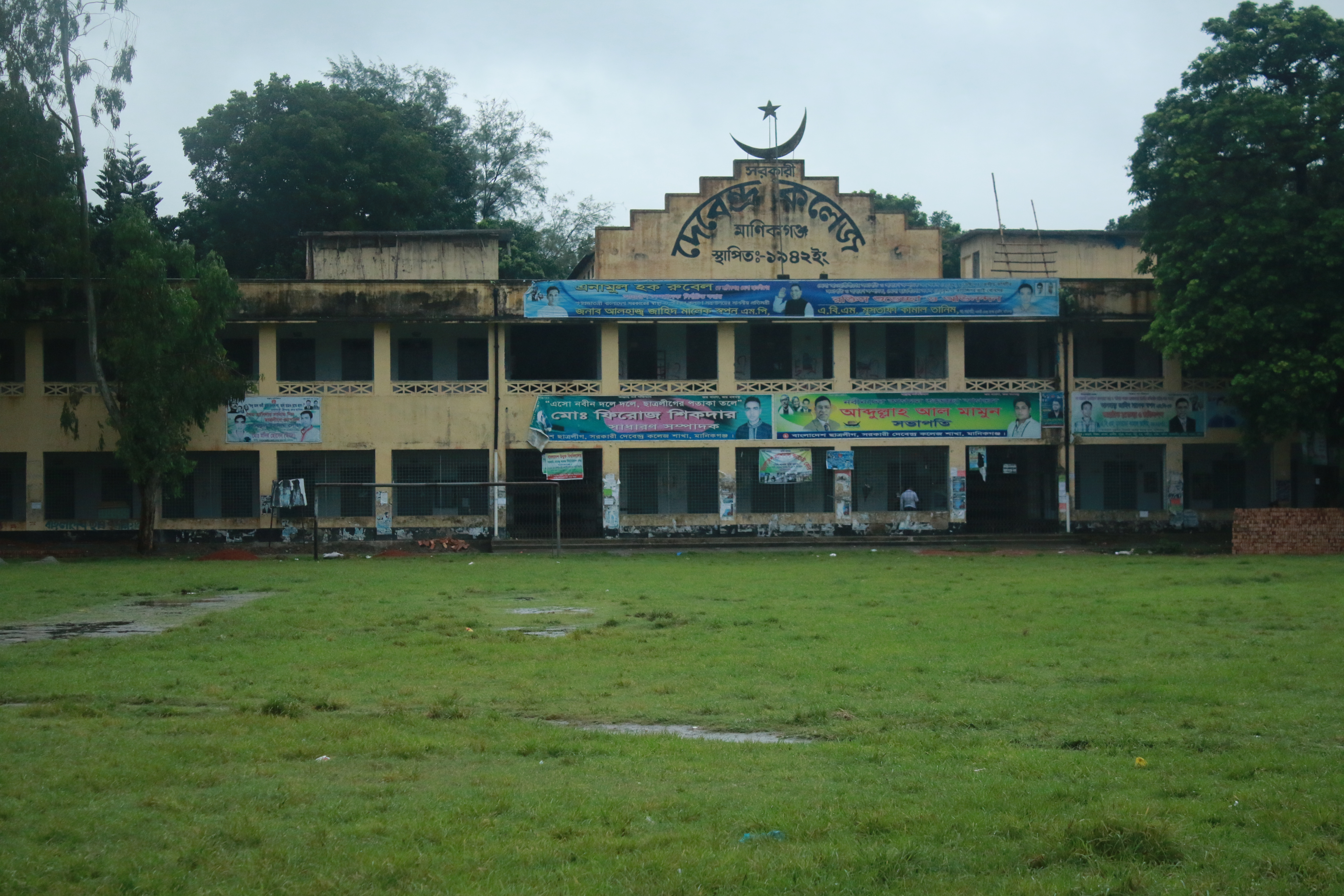 Govt Debendra collage Manikgonj